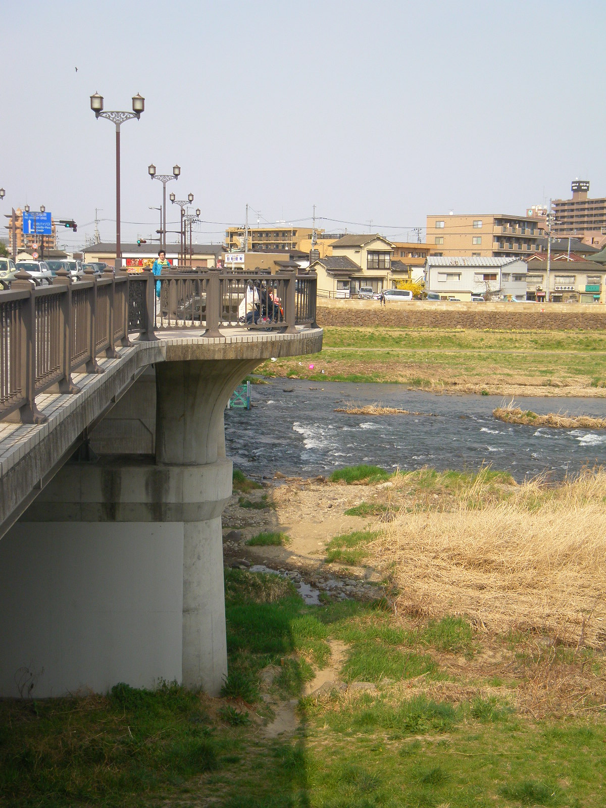 Hirose Bridge over Hirose River. Sendai, Miyagi prefecture, Japan. From the southeast side of the bridge, Nagamachi 1 chōme, Taihaku ward, toward northeast Kawaramachi 2 chōme, Wakabayashi ward.